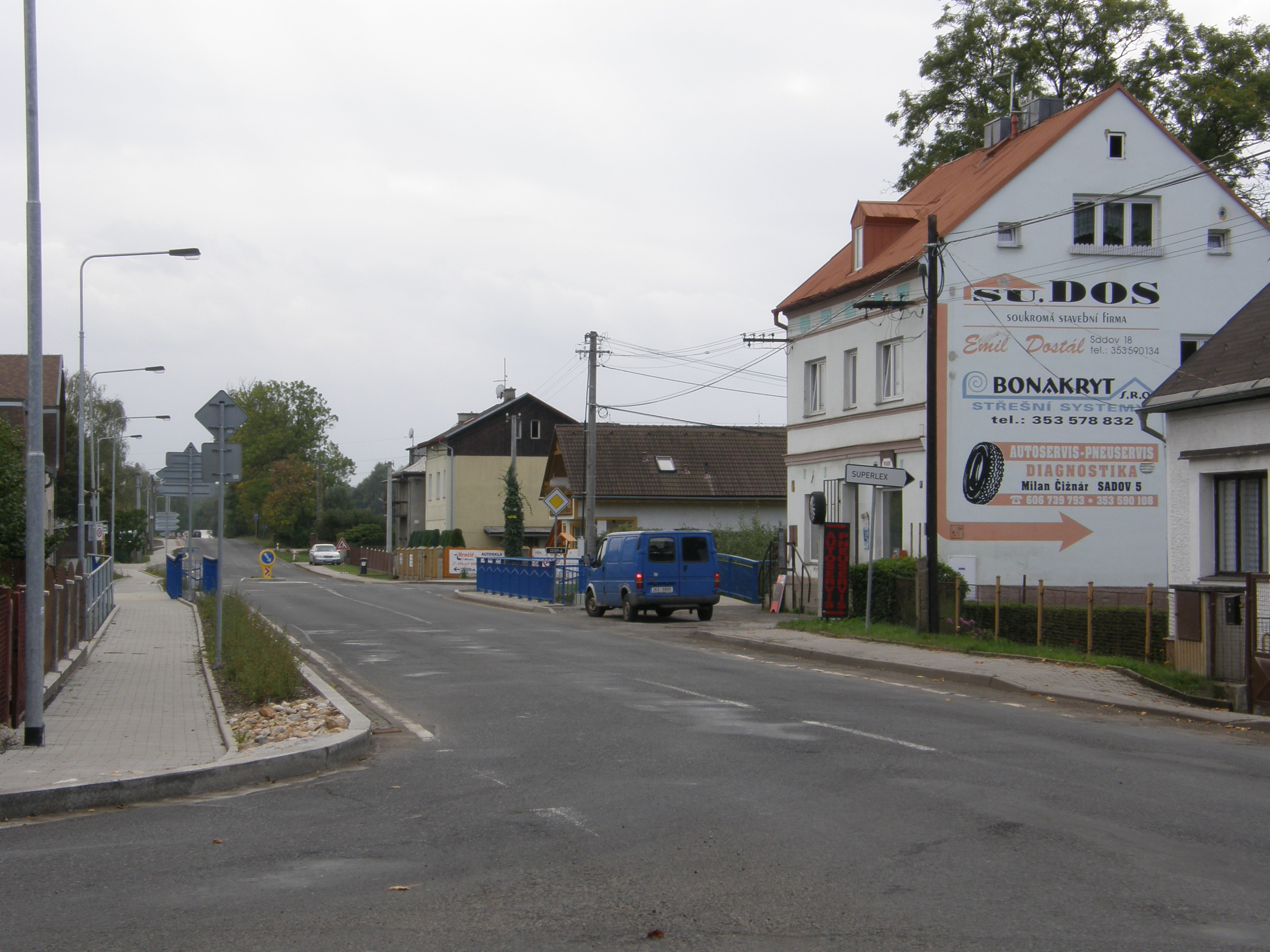 Sadov, road from Ostrov to Karlovy Vary